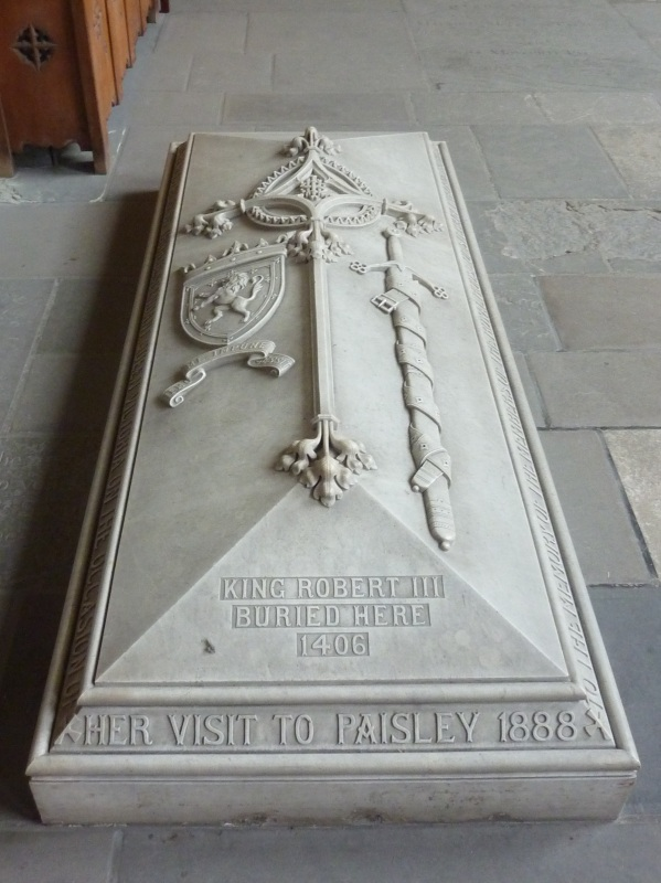 Paisley Abbey, Paisley, Renfrewshire, Scotland. Tomb of Robert III of Scotland, donated by Queen Victoria.